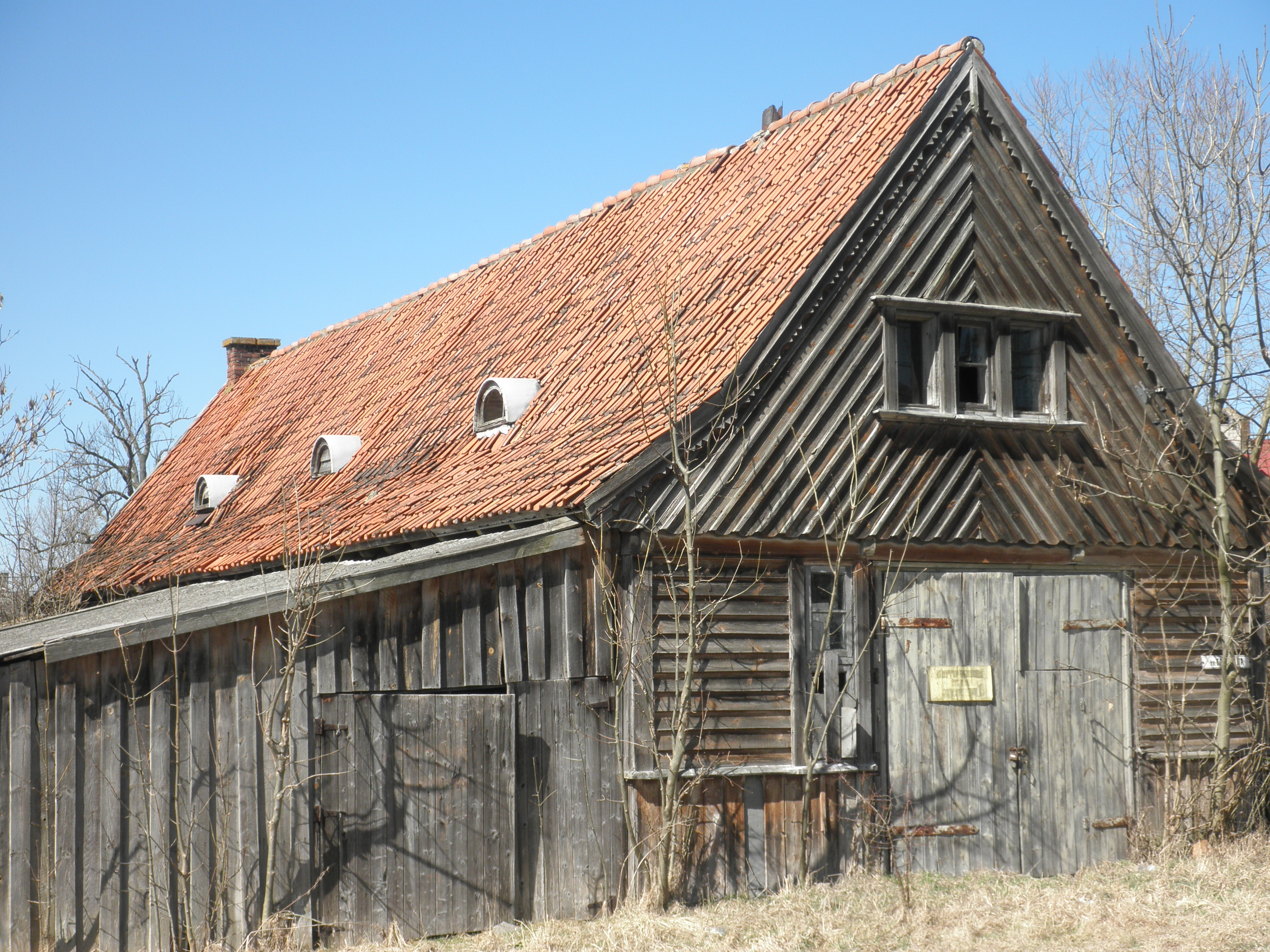 Former Birds Museum in Rossitten (Rybachy) in Kaliningrad Oblast in Russia